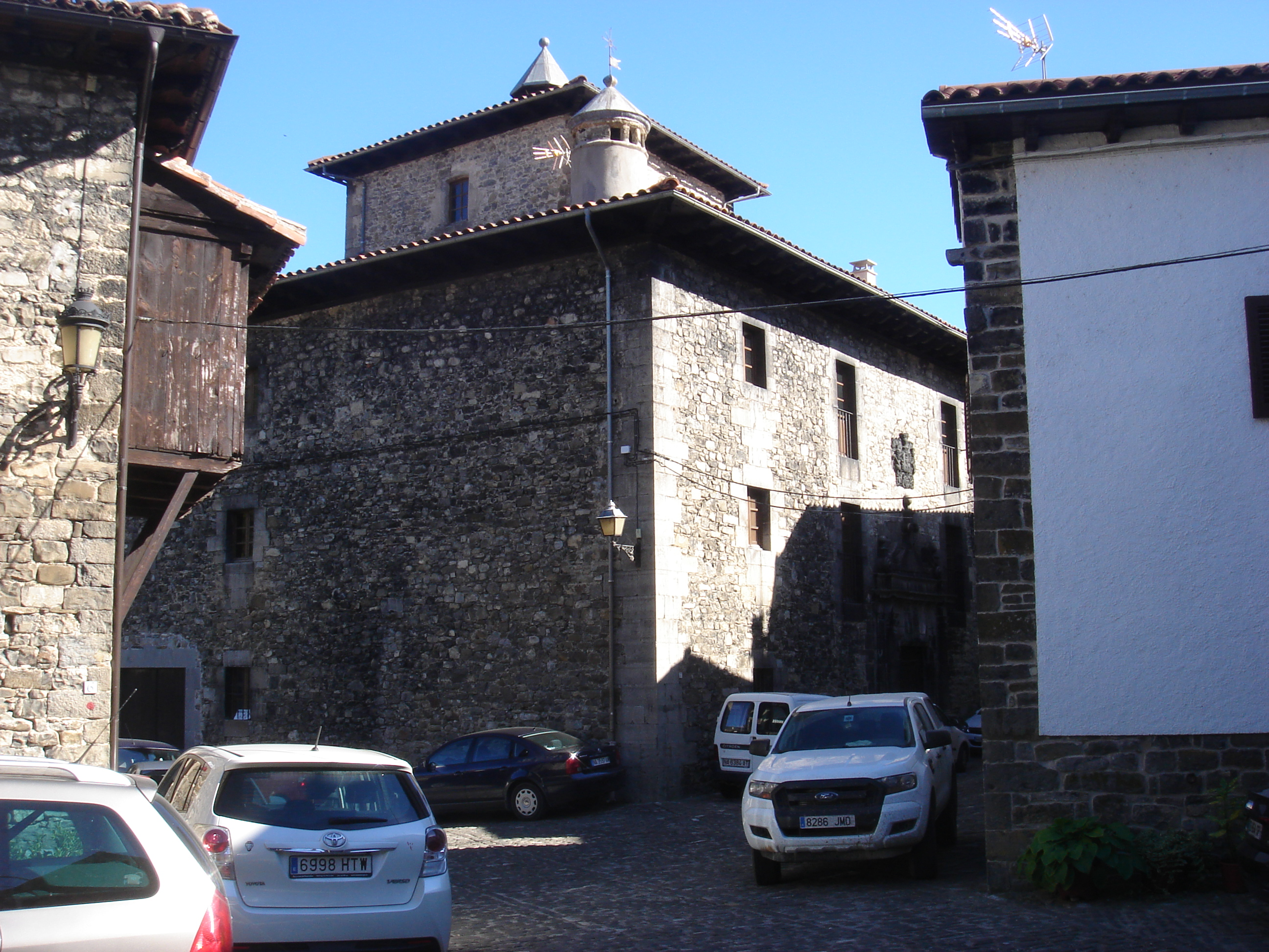 a house of stone